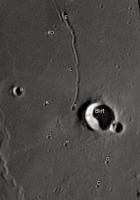 Birt lunar crater as seen from Earth with satellite craters labeled